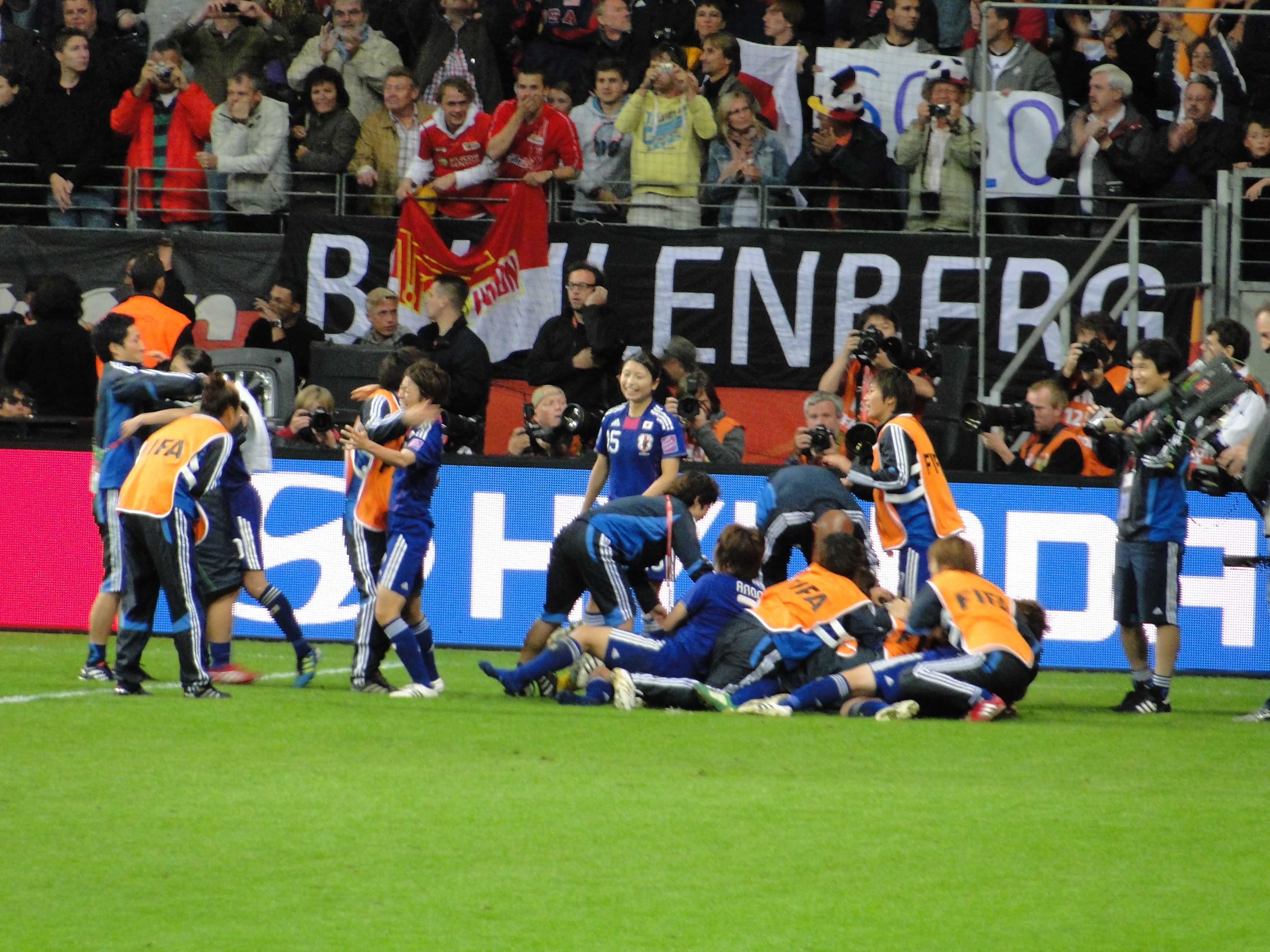 Japan celebrates the victory!